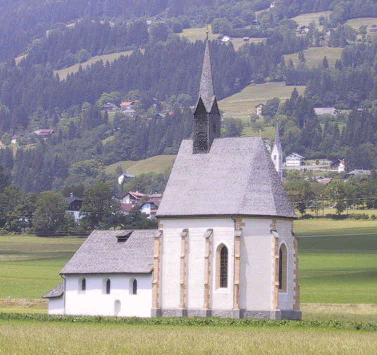 Filialkirche Hl. Athanasius